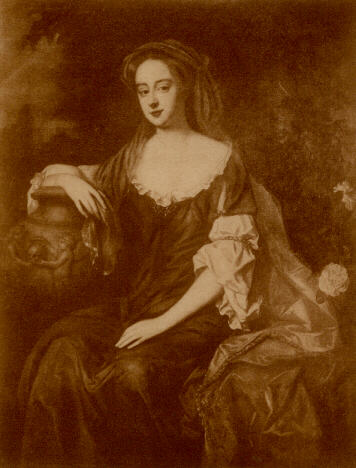 Elizabeth Seymour, Duchess of Somerset (26 January 1667–24 November 1722)[1] was an English courtier and Whig politician.